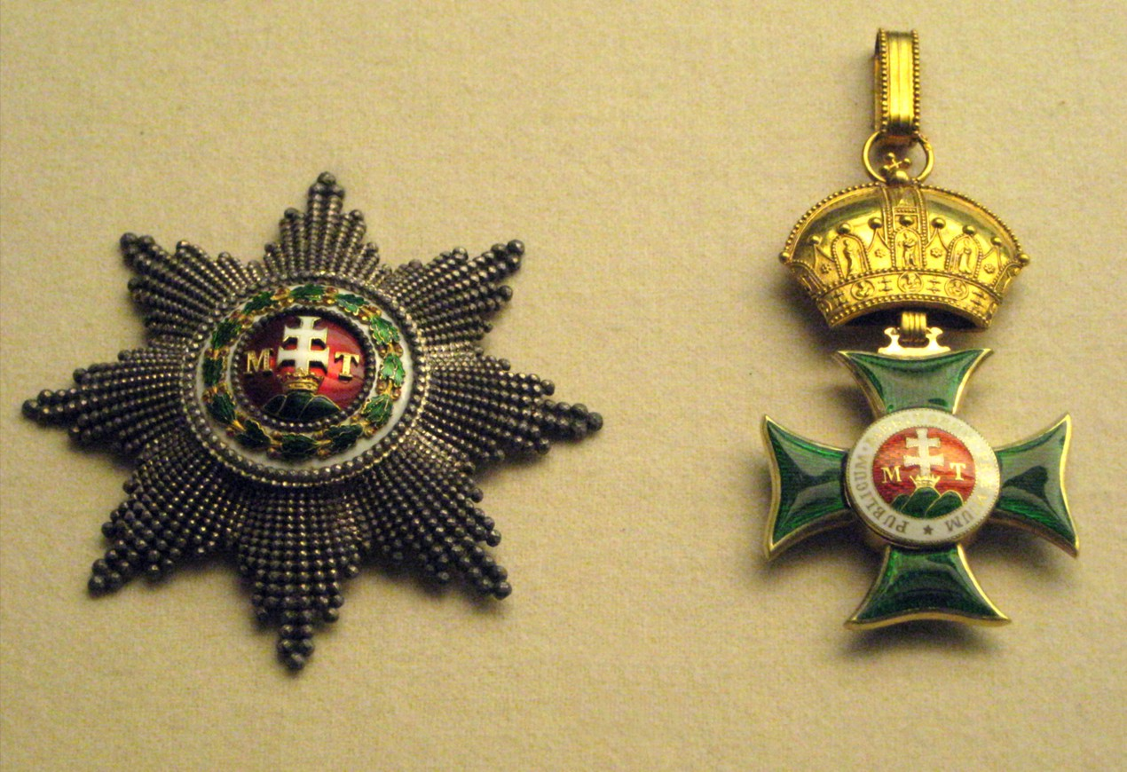 The star and the badge of the order of St.Stephan. late 19th c. Silver, gold, enamel